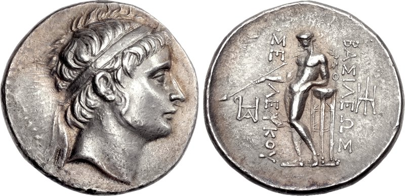 SELEUKID KINGS of SYRIA. Seleukos II Kallinikos. 246-225 BC. AR Tetradrachm (28mm, 17.11 g, 12h). Antioch mint. Struck circa 244-226 BC. Diademed head right / Apollo Delphios standing left, leaning on tripod, holding bow; monograms to outer left and right. SC 689.6b; cf. Le Rider, Antioche 69 (obv. die A6); HGC 9, 303p. EF, light golden tone, a few very light scratches under tone. Ex Semon Lipcer Collection (Triton XI, 8 January 2008), lot 289.